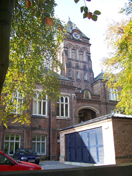 Main entrance to Queen Elizabeth sixth form college, Darlington